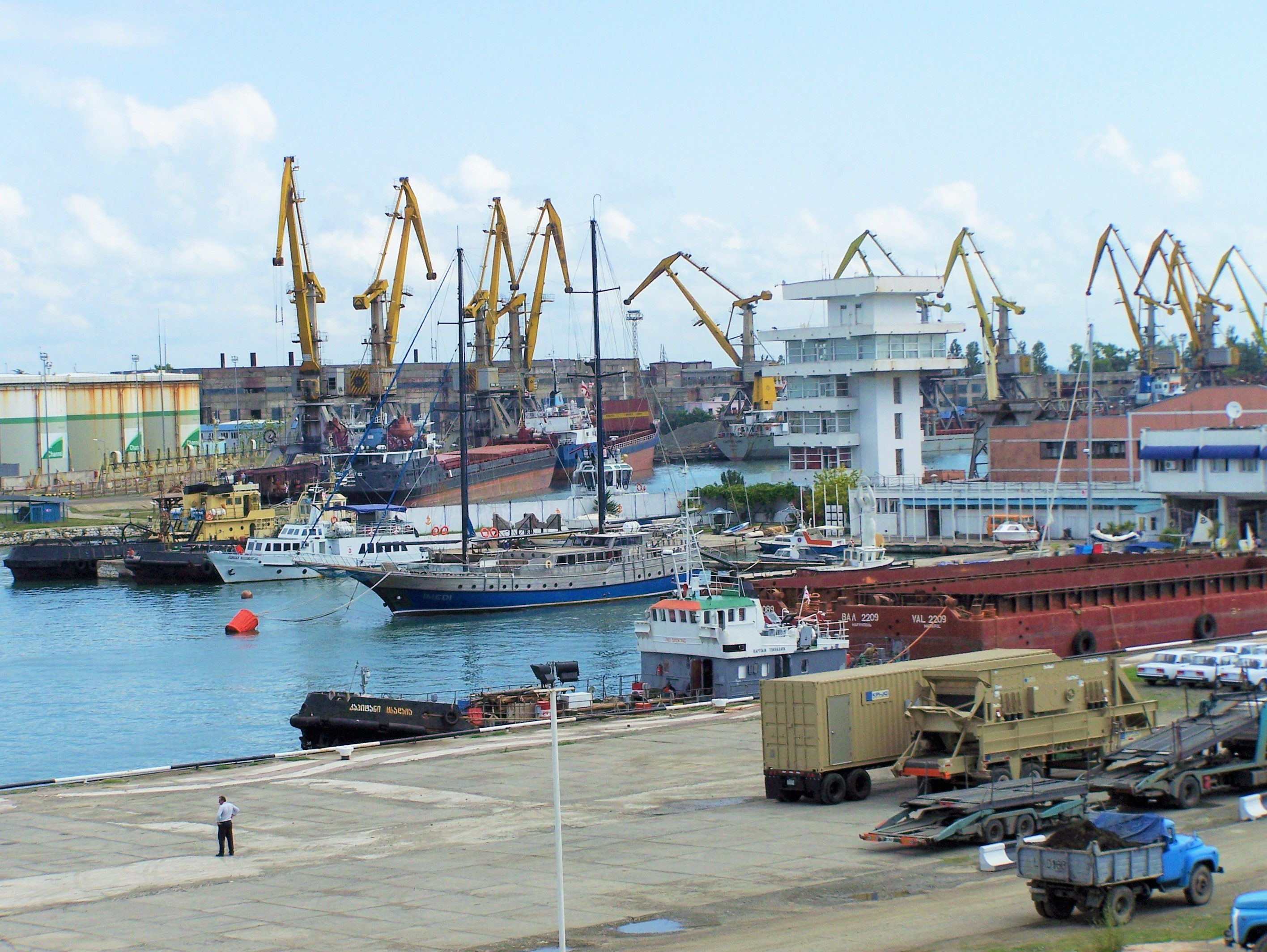 Port of Poti, Georgia, This photo was taken about 2 weeks before the port was destroyed by Russian aircraft.